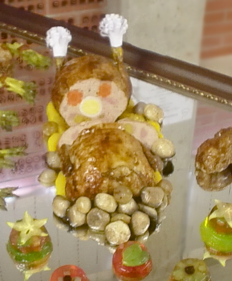 Duck galantine.